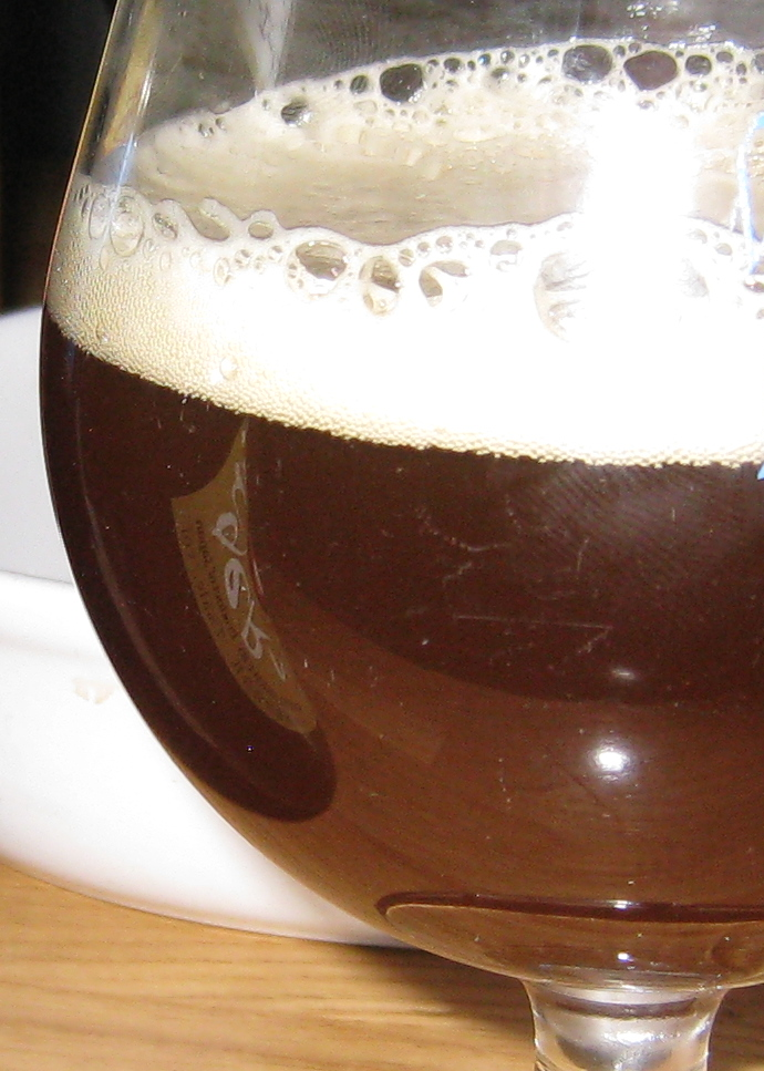 A Real Ginger Brew from Japan. This beer is part of the Hitachino Nest top fermented beer series, established in 1996 by the Kiuchi Brewery. This brewery was established in 1823 and is perhaps better known for producing sake, but their series of beers are getting more and more attention. Since 2000 they've been exporting beer to the USA.